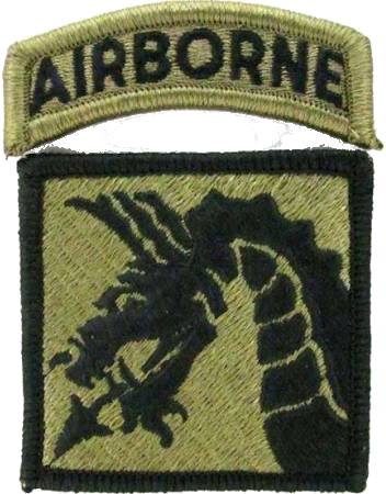 Patch of the United States Army XVIII Airborne Corps